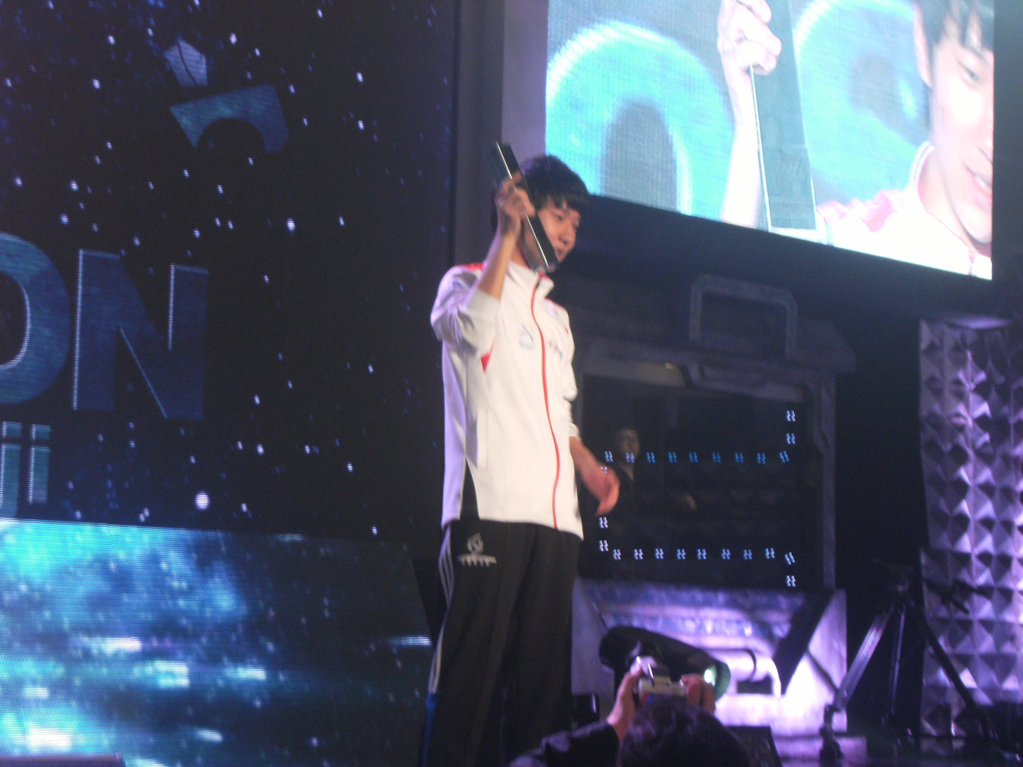 StarCraft II player Jung Ji-hoon (nickname: jjakji)